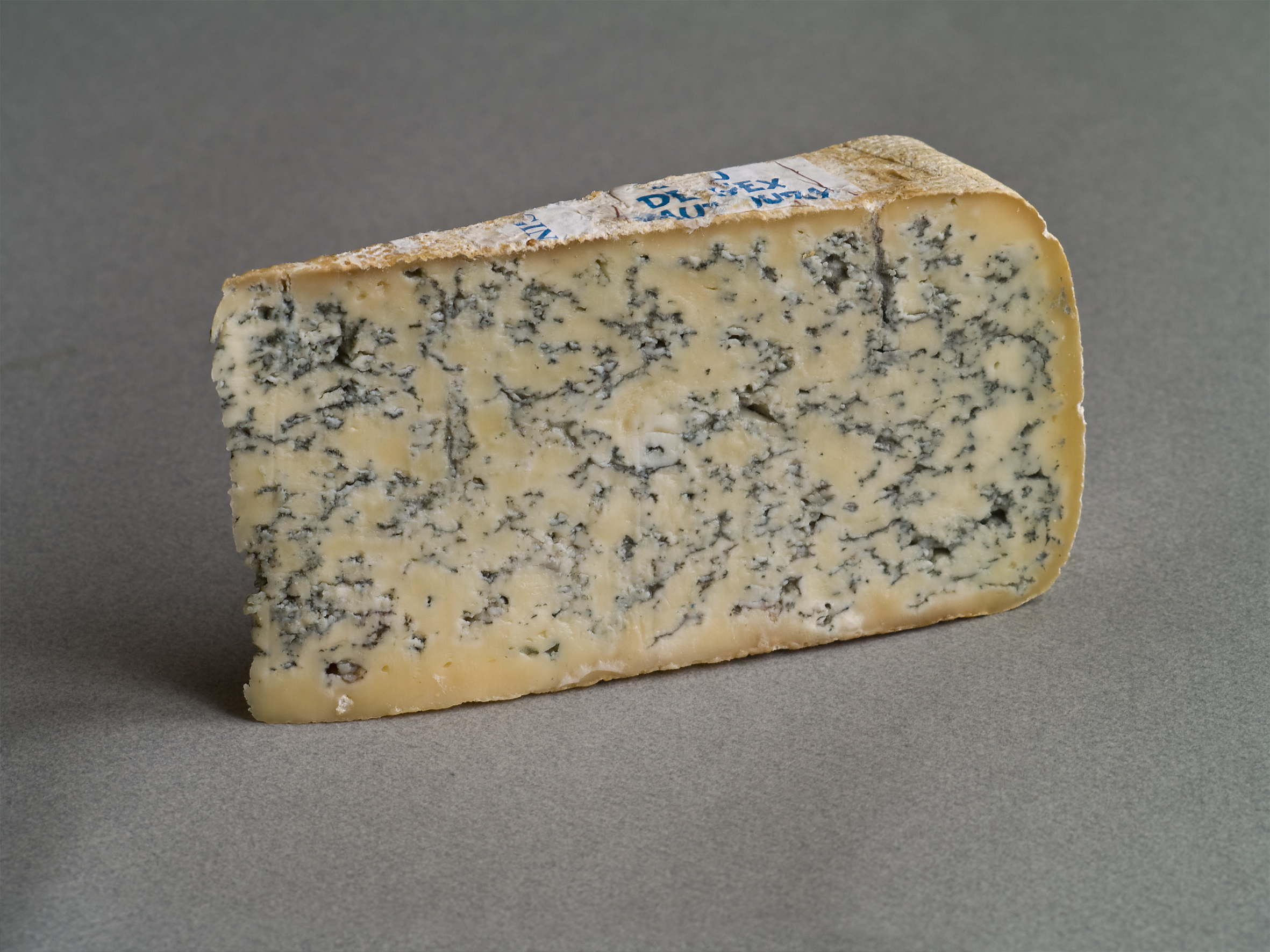 Bleu de Gex is a French cow's-milk blue cheese, made in the Jura mountains. It is labelled Protected Designation of Origin (PDO). Its precise labelled name is “Bleu de Gex haut Jura”; it is also called “Bleu de Septmoncel”.